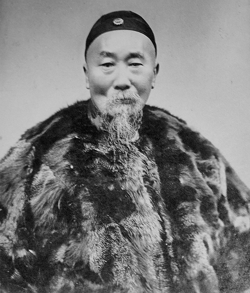 Photographic portrait of Lihongzhang (* 15. February 1823 in Qunzhi (群治村); † 7. November 1901 in Peking) by Baoji Studio, Shanghai. Date unknown. Photographed from display at the Volkenkunde Museum, Utrecht, Netherlands, 2013-08-05.